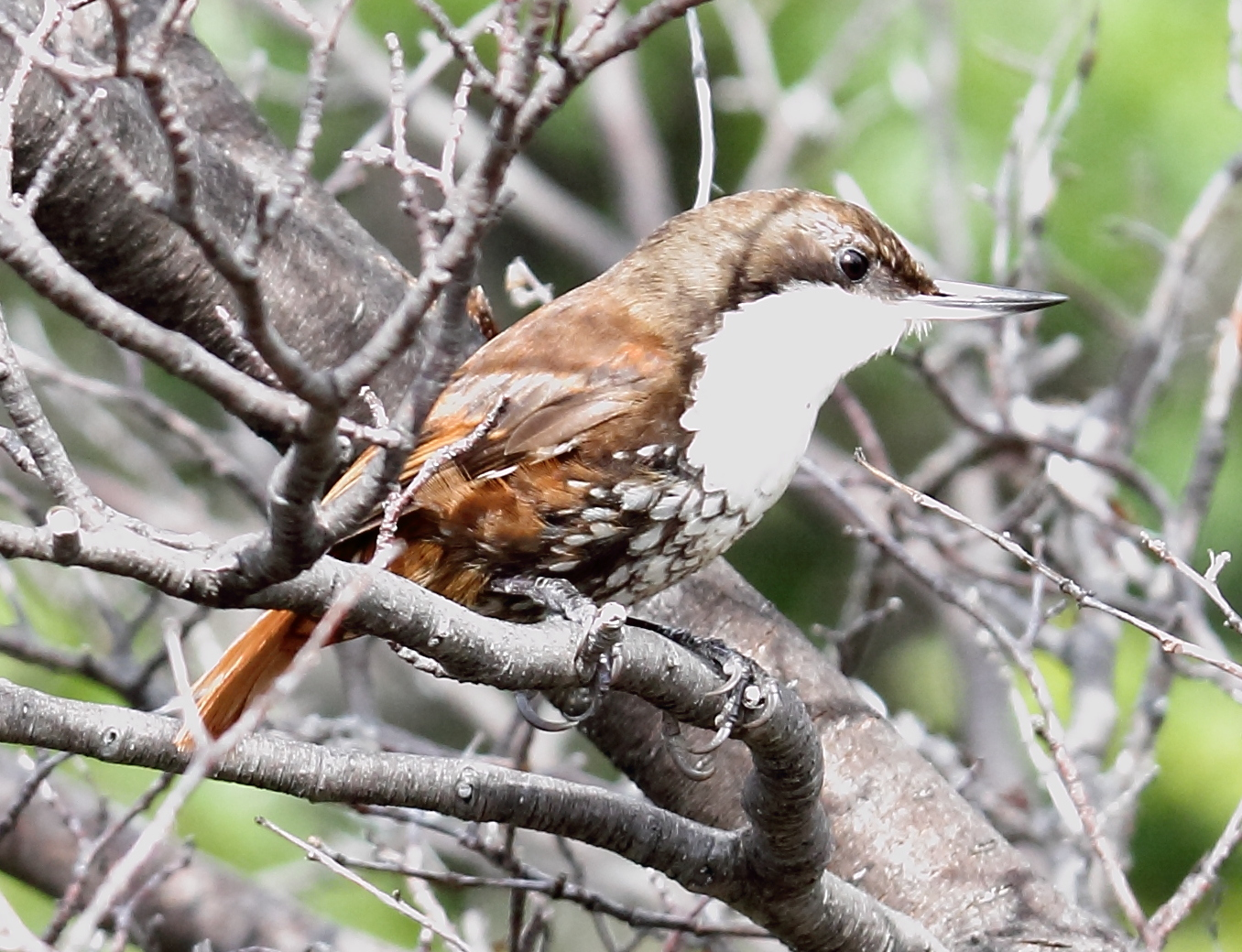 White-throated Treerummer (Pygarrhichas albogularis)